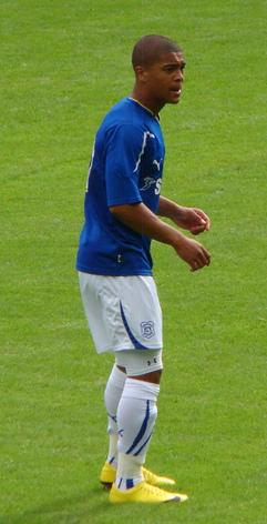 31/07/10 Cardiff V Deportivo, Friendly, Cardiff City Stadium, Cardiff, Wales